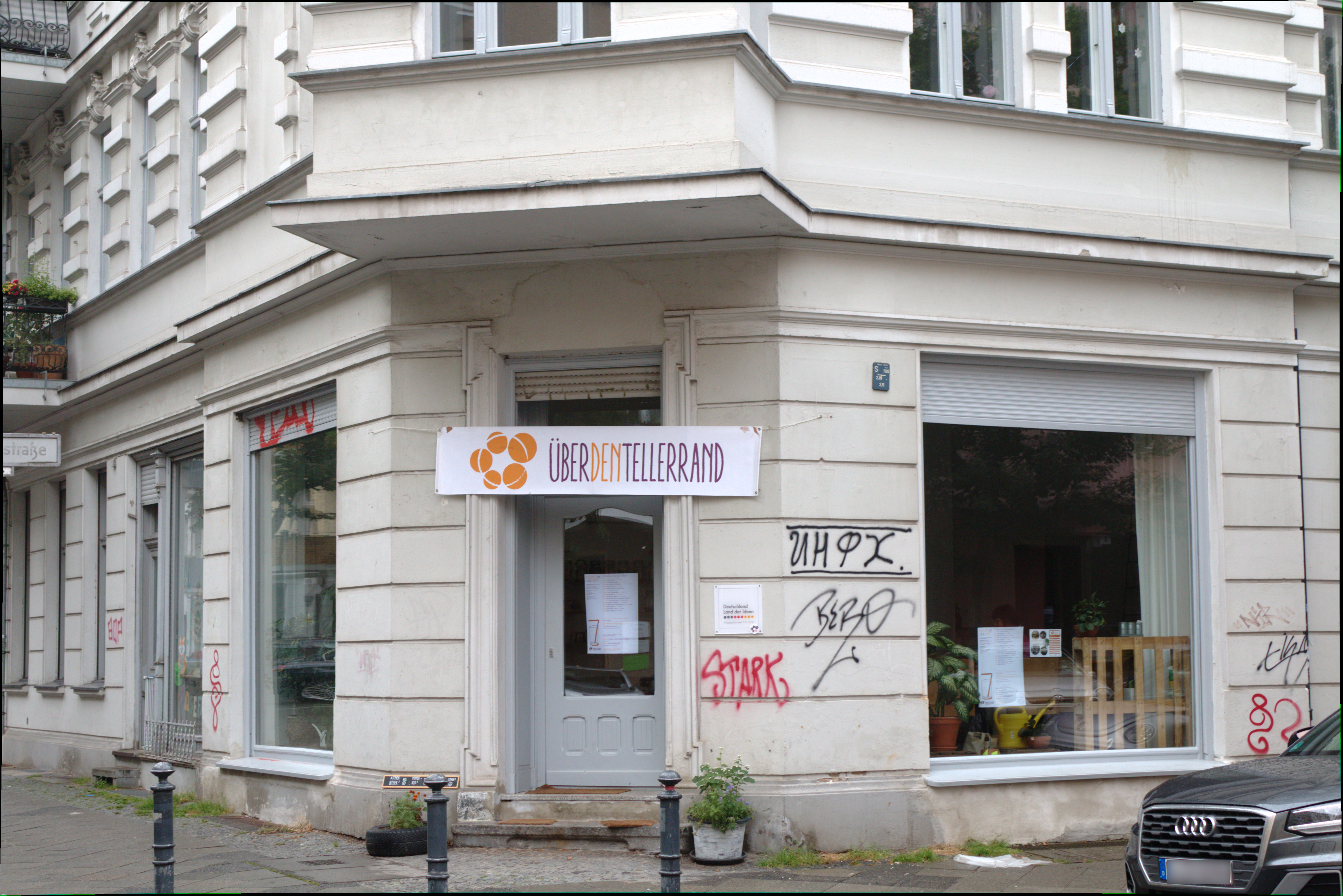 Kitchen Hub of Über den Tellerand in Berlin.